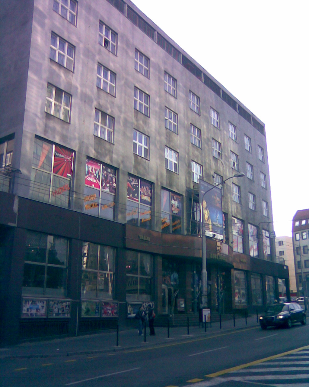 Theatre Nova Scena